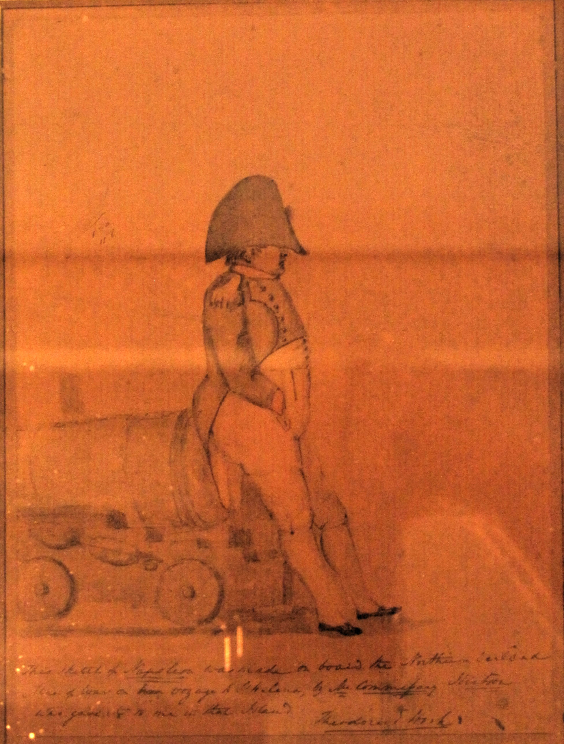 Napoléon on the ship to Saint Helena, by Denzil O. Ibbetson, aboard HMS Northumberland, 1815. Watercolour, ink and pencil. Versailles, Musée national des châteaux de Versailles et de Trianon, on loan to the National museum of the châteaux of Malmaison and Bois-Préau. Gift from Jean Varin, 1970.